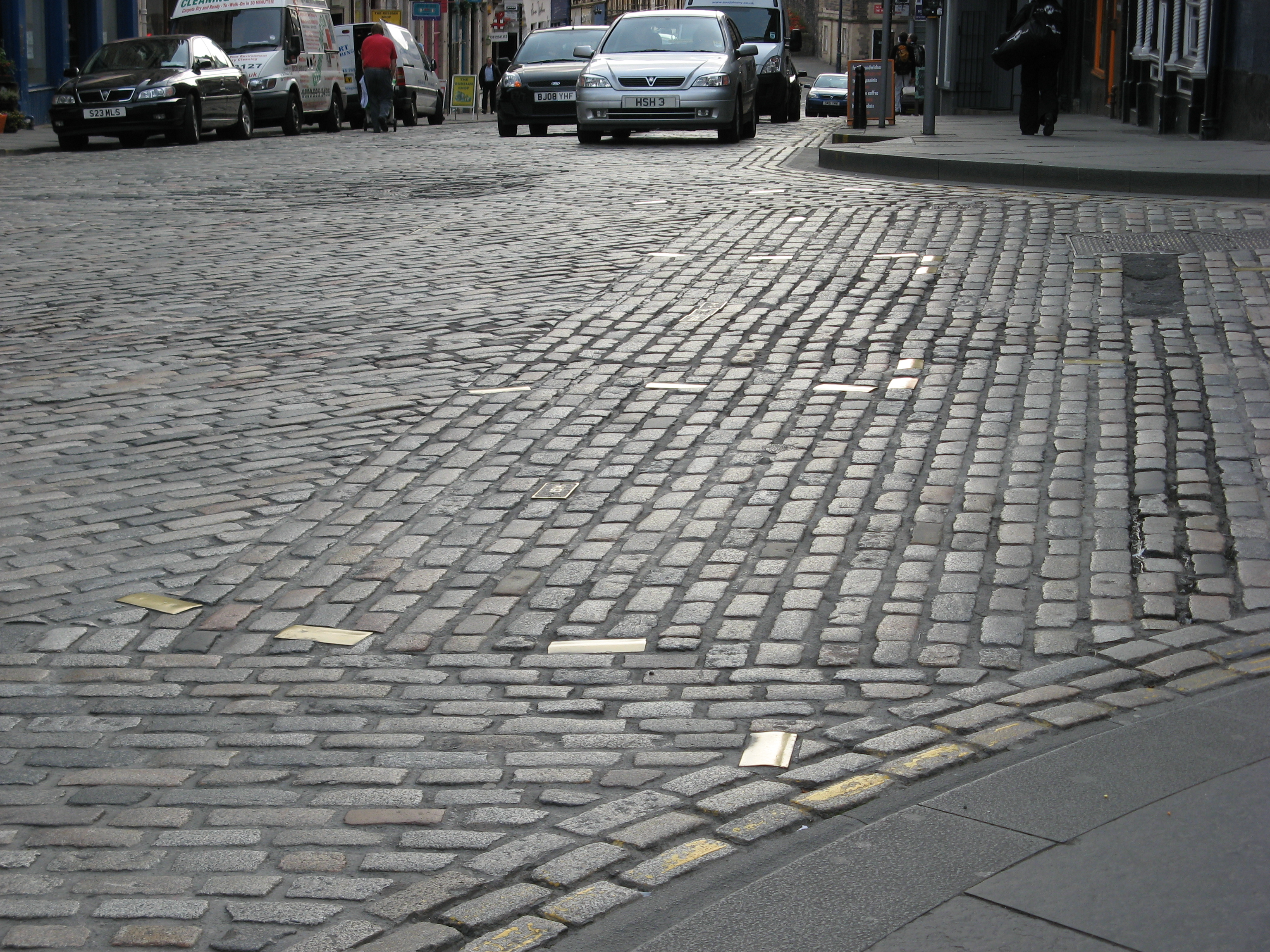 Brass blocks in the street mark the outline of the Netherbow, the gate through the town walls into Edinburgh along the Royal Mile